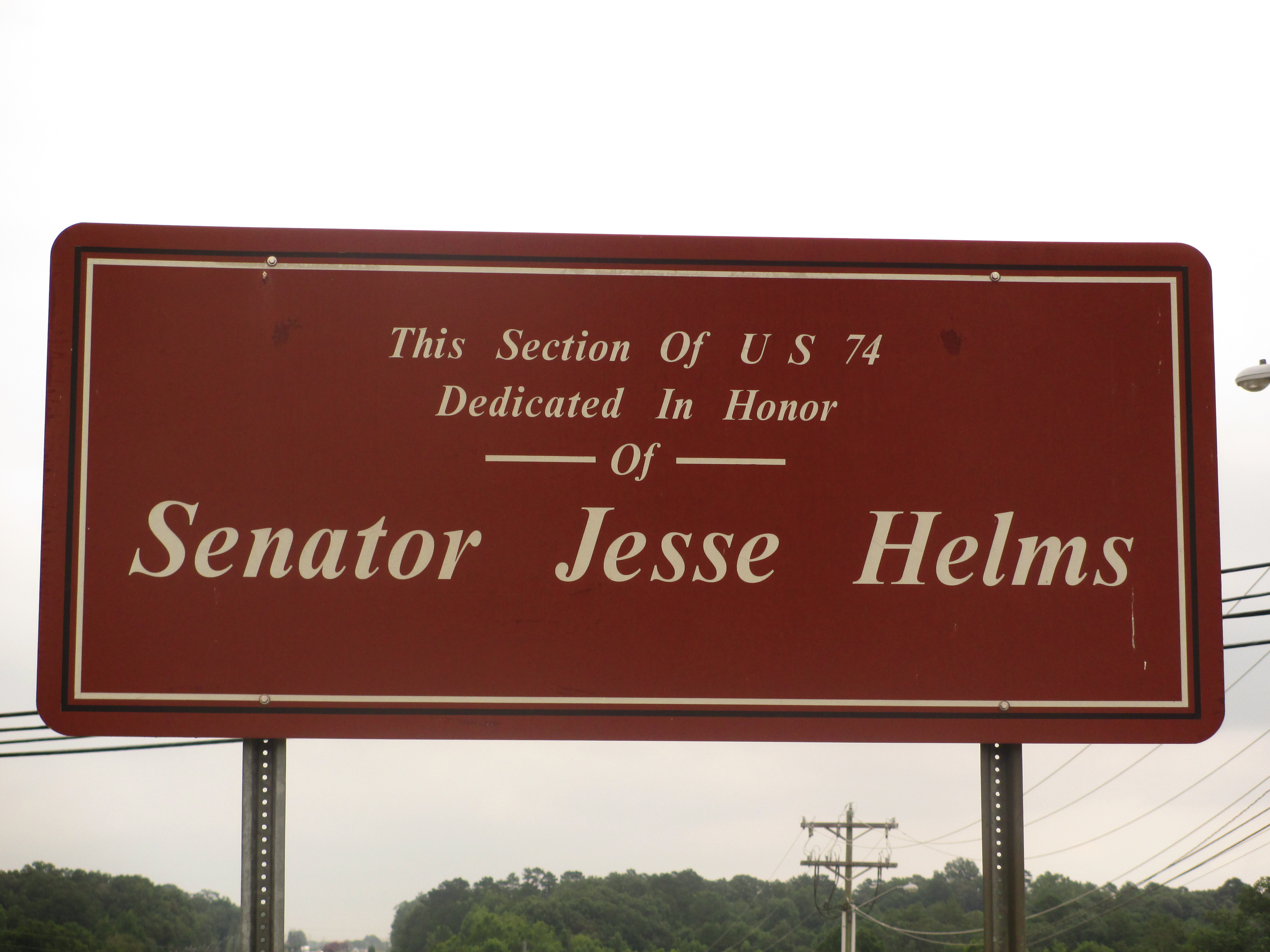 I took photo in Monroe, NC, of U.S. Hwy. 74 "Jesse Helms Highway", with Canon camera.